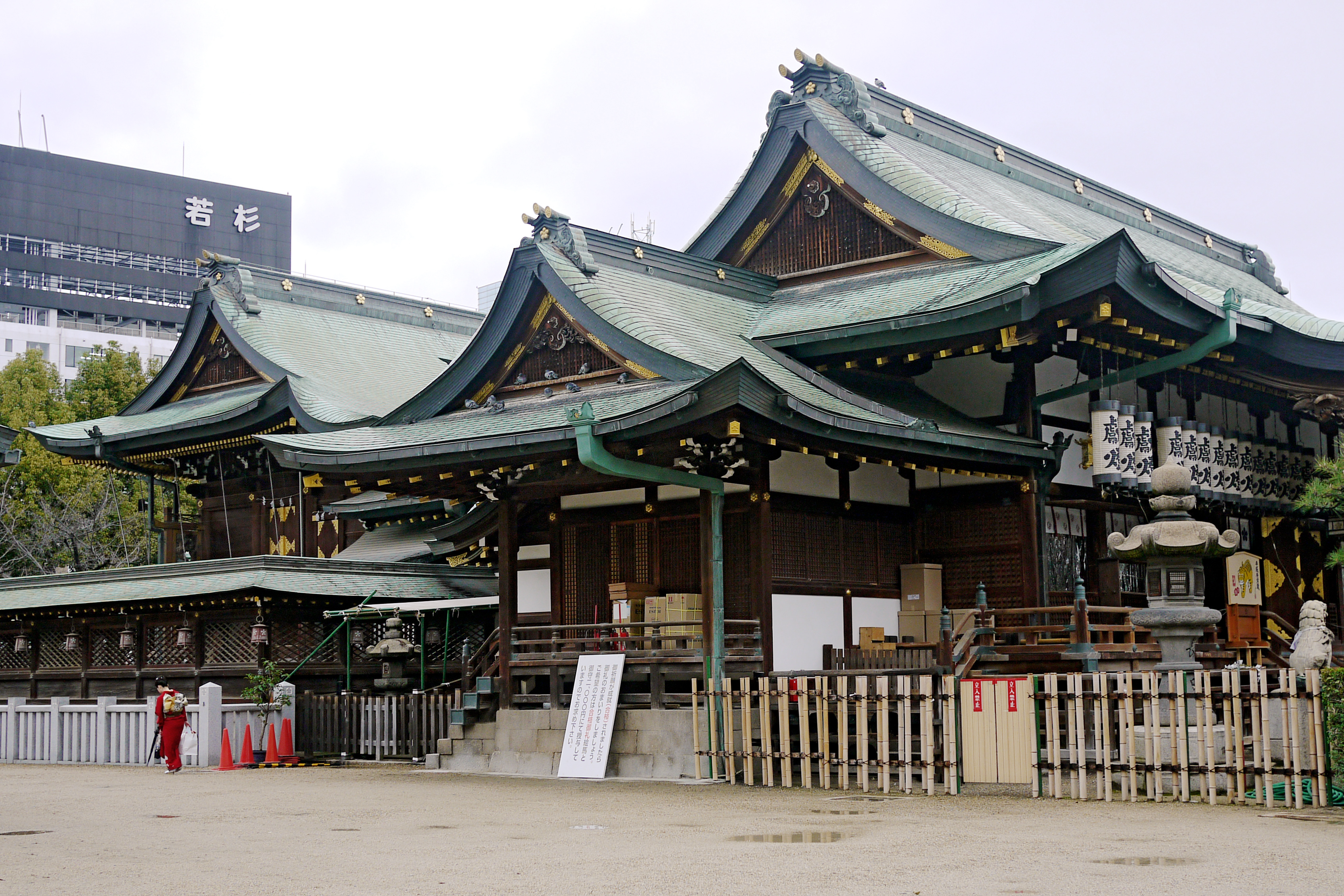 Ōsaka Tenmangū Shrine in Kita-ku, Ōsaka, Ōsaka Prefecture, Japan